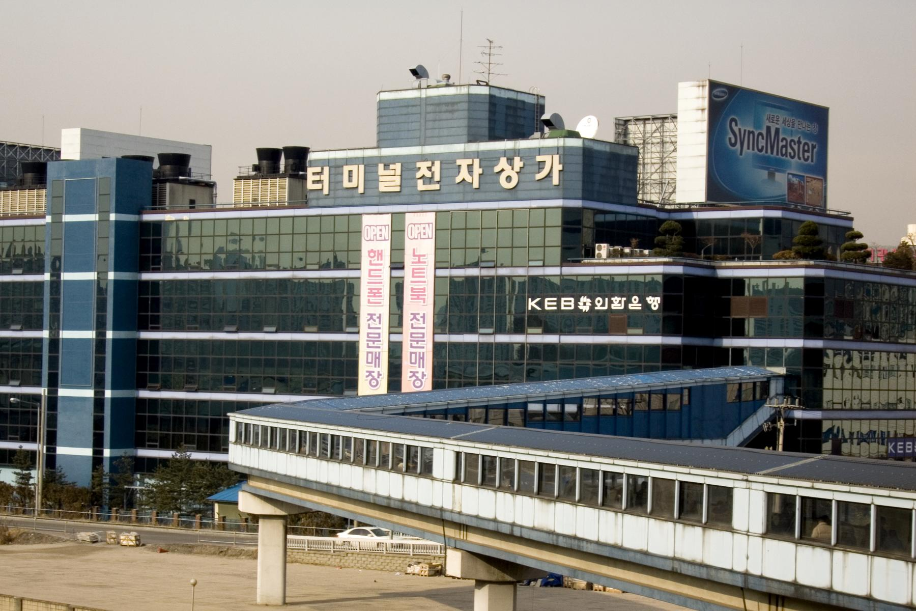 Yongsan Terminal Electronic Center in Seoul